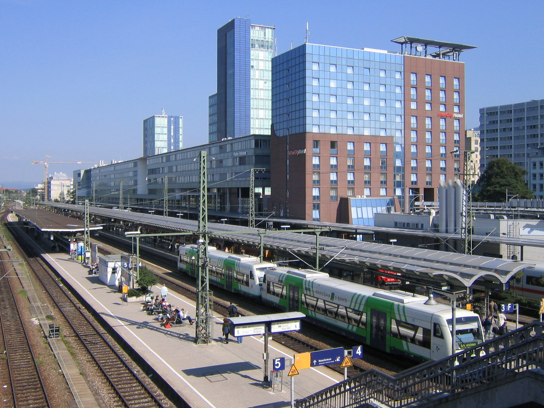 Freiburg Central Station: in the foreground, a Breisgau S-bahn trainset; in the background, the InterCity Hotel